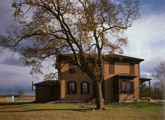 The Oliver H. Kelley Homestead near Elk River, Minnesota.